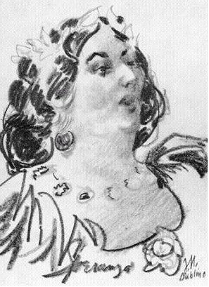 Lady Jane Wilde